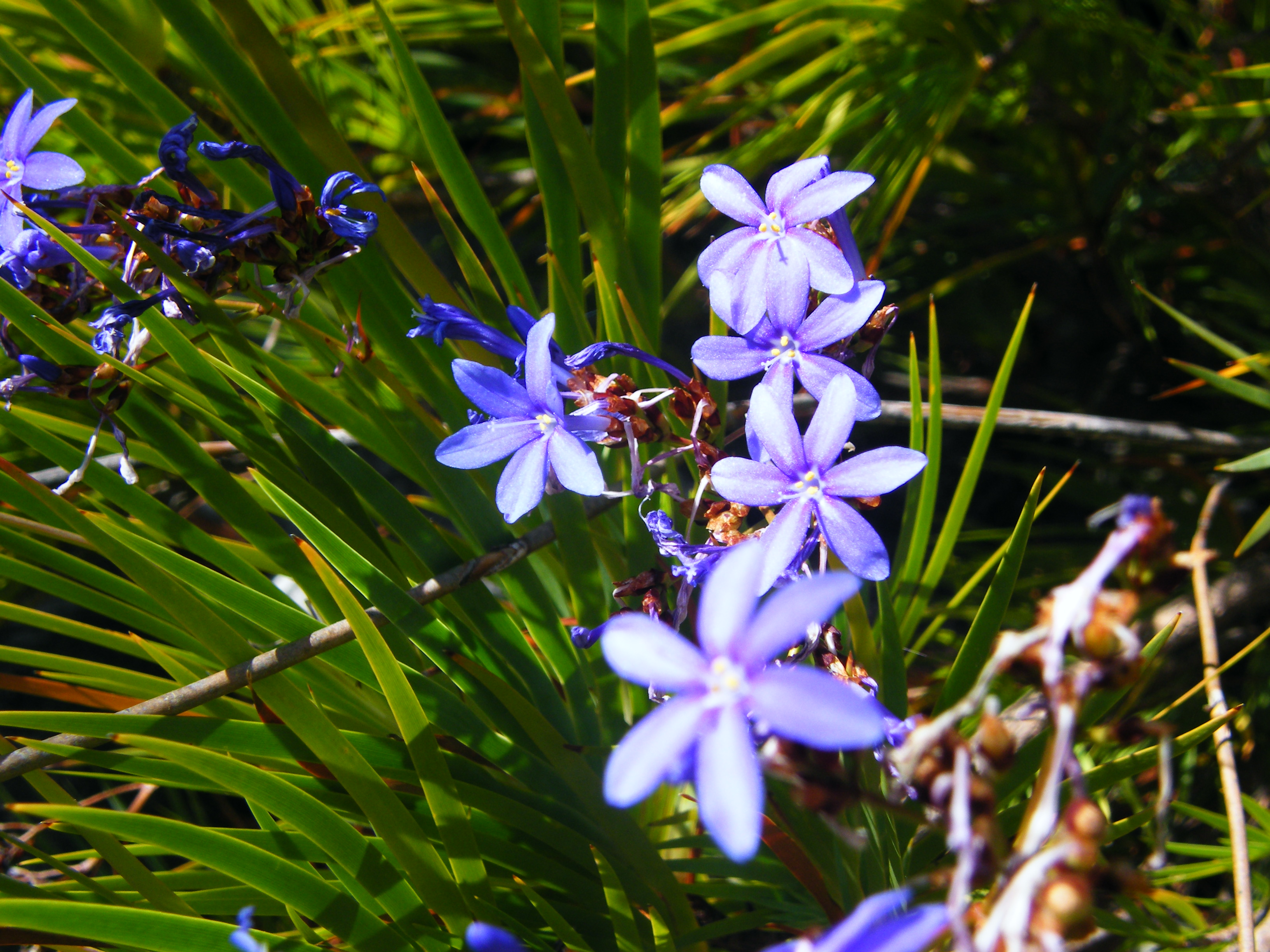 Bush Iris